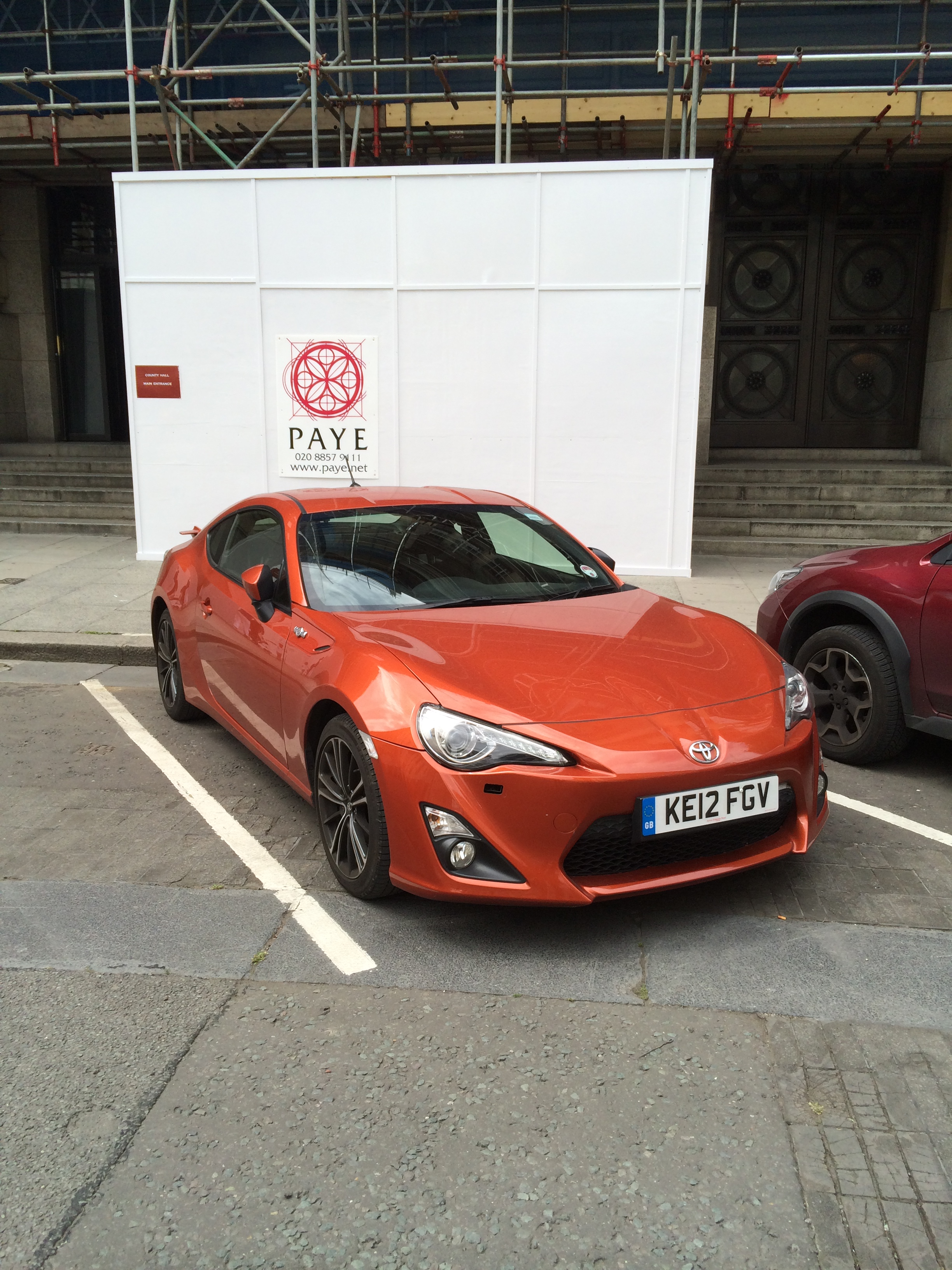 A Toyota 86 parked in London.